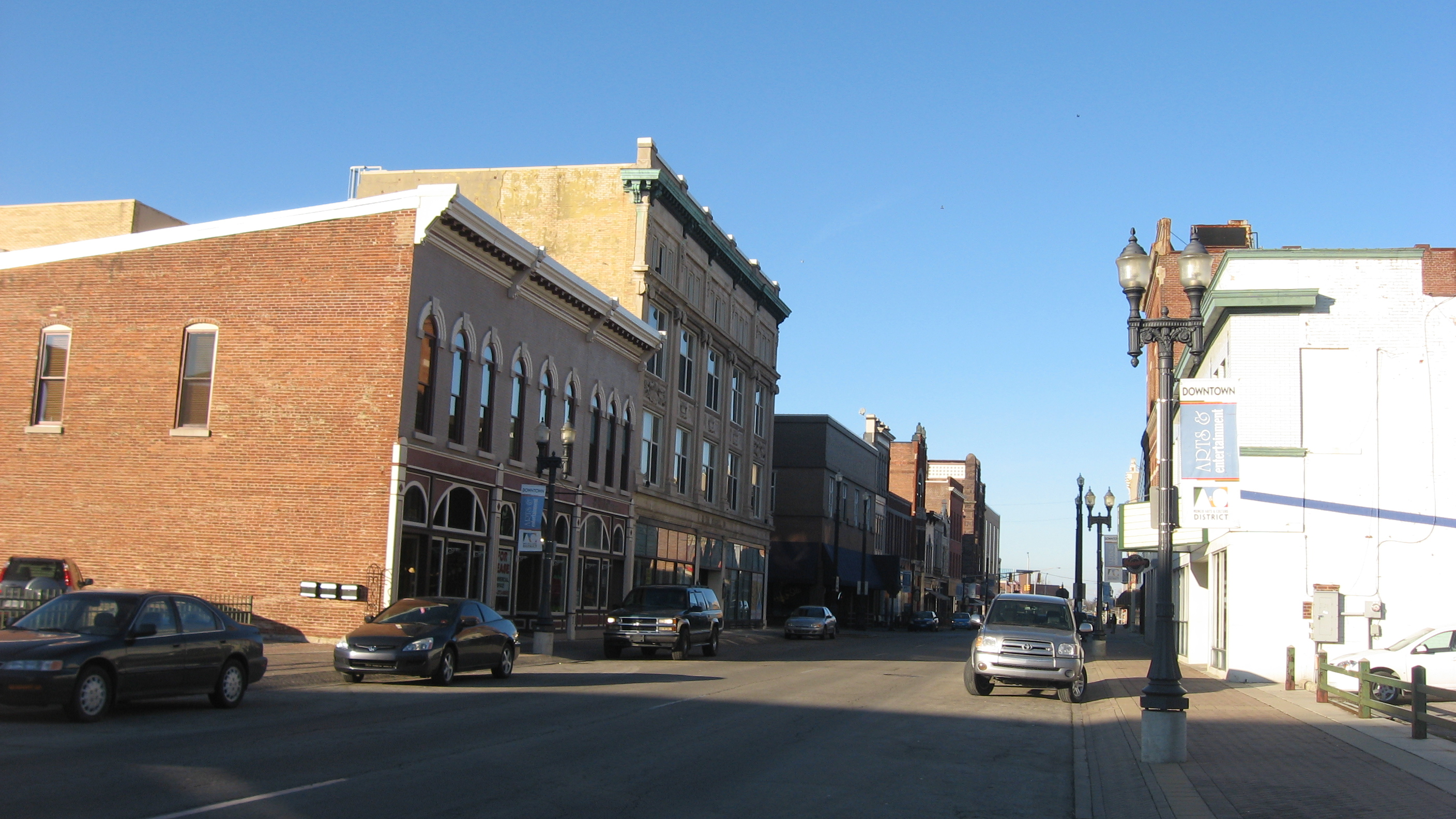 Looking northward along Walnut Street from near the Charles Street junction in Muncie, Indiana, United States. These blocks are part of the Walnut Street Historic District, a historic district that is listed on the National Register of Historic Places.